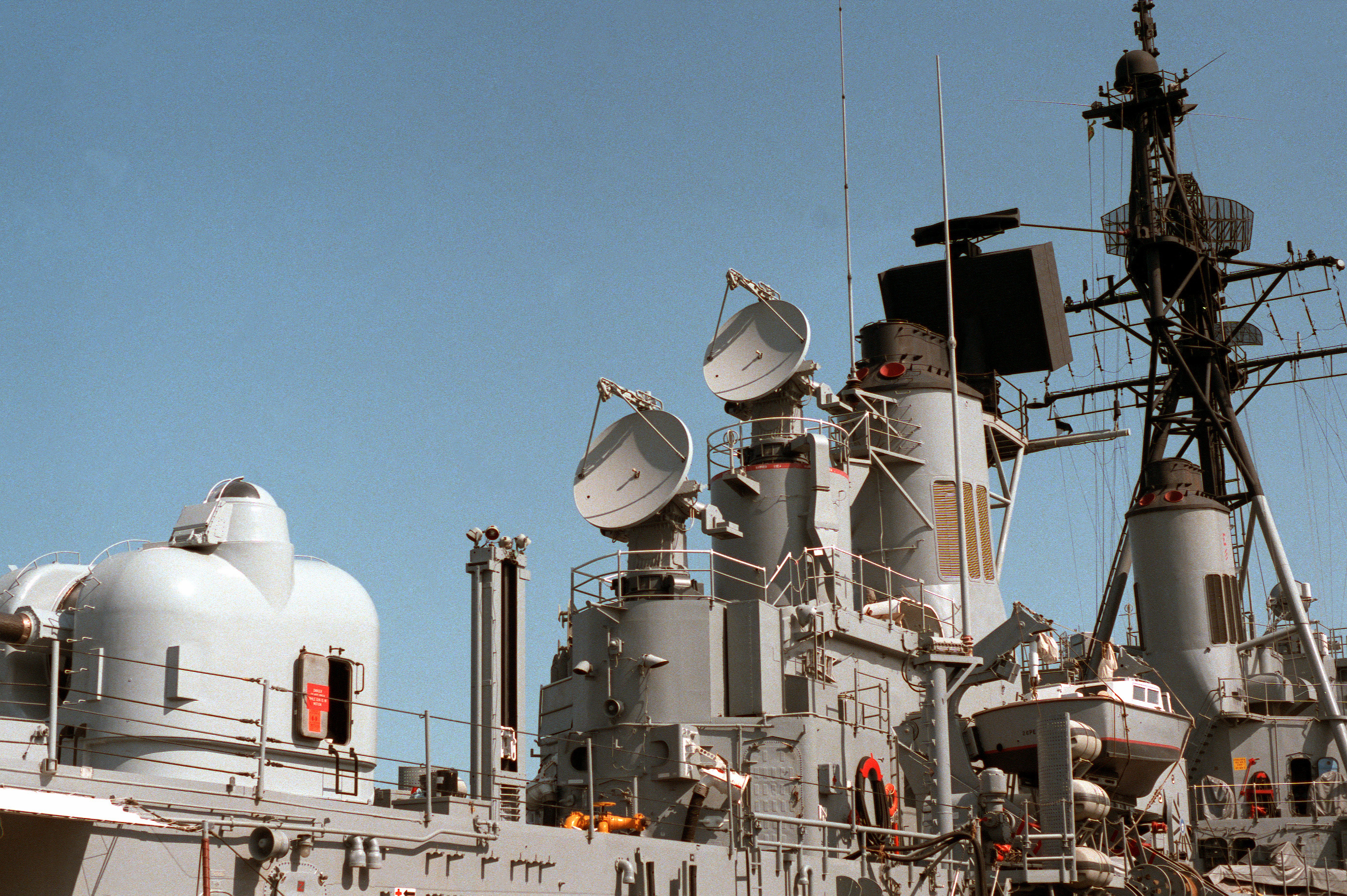 A view of the upper works of the guided missile destroyer USS RICHARD E. BYRD (DDG 23). Visible are (from left to right), an Mark 42 5-INCH DP gun mount, twin SPG-51 missile fire control radar antennas, an SPS-52 three-dimensional search radar antenna (on No. 2 smokestack), and SPS-40 and SPS-10 radar antennas (on the foremast).Location: NAVAL AIR STATION, NORFOLK, VIRGINIA (VA) UNITED STATES OF AMERICA (USA)